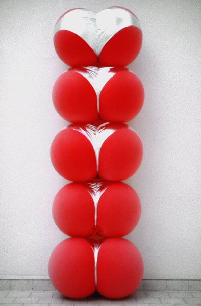 sculpture titled "Buttress", 1997, 180" x 53" x 33",materials latex and fabric original sculpture by Nancy Davidson